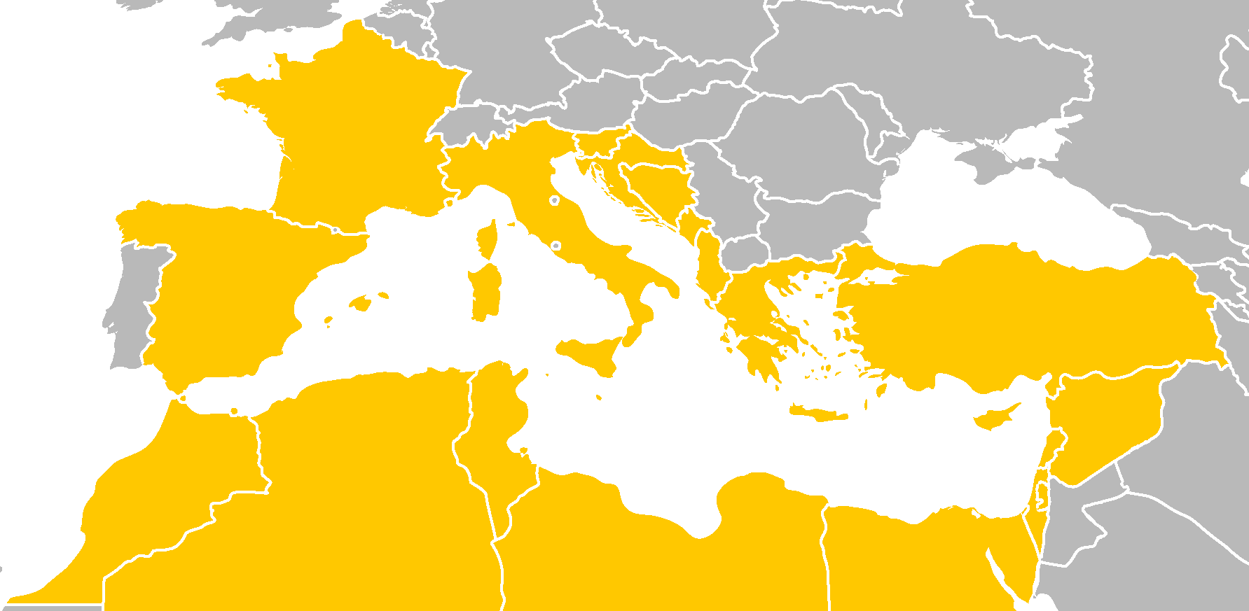 Countries surrounding the Mediterranean